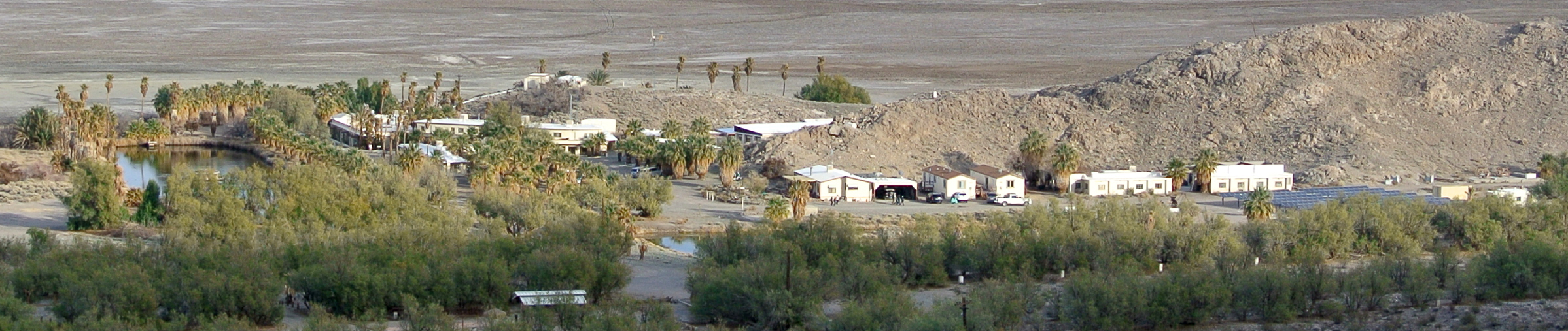 Soda Lake, San Bernardino County, California. Zzyzx and the Desert Studies Center in the foreground.